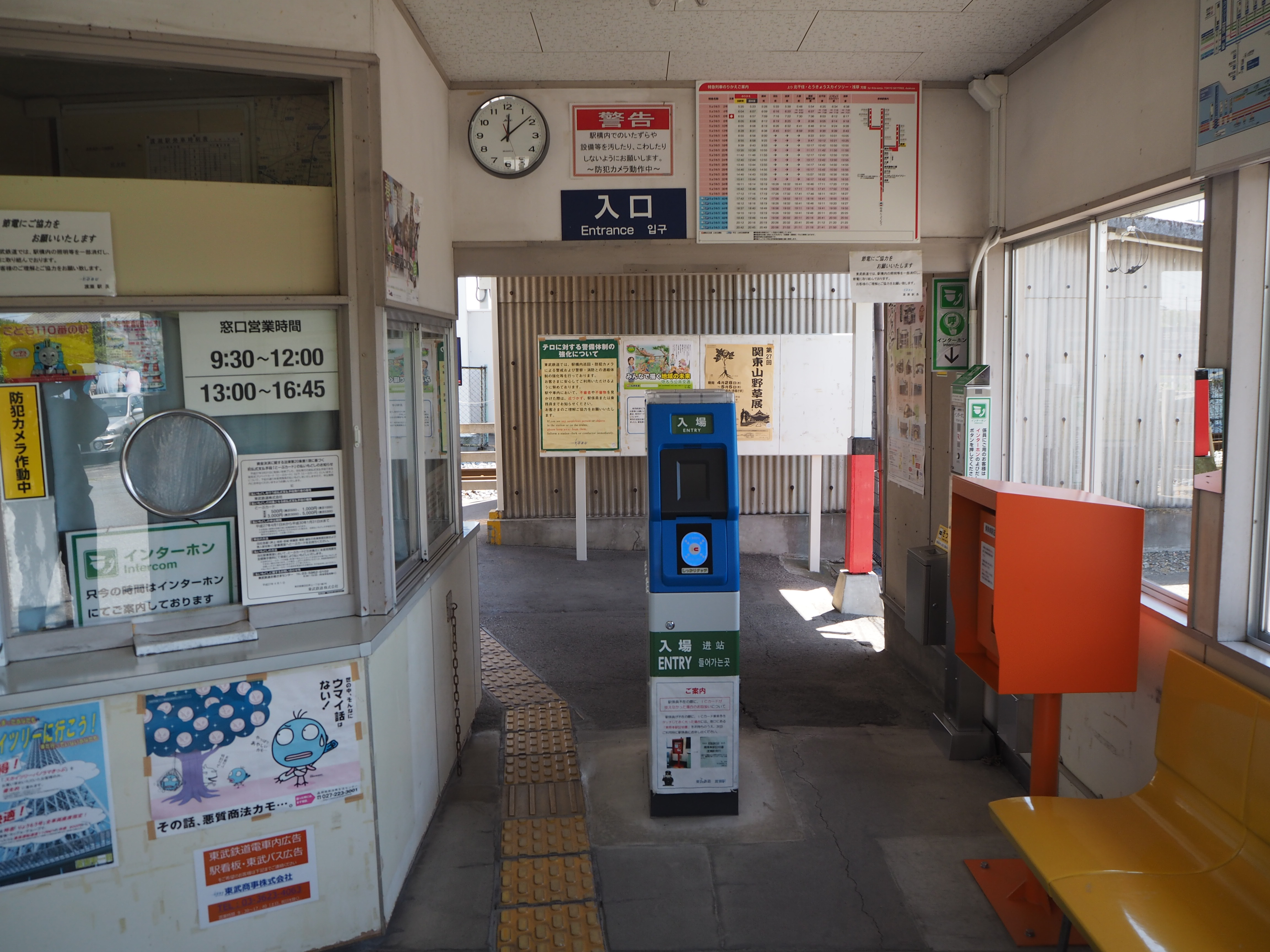 Ticket gate of Watarase Station